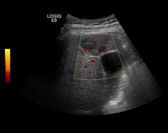 Ultrasonography of early hepatocellular carcinoma in dysplastic nodule. See Ultrasonography of liver tumors.